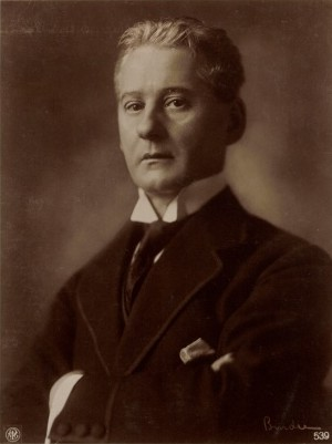 Portrait of German actor Paul Biensfeldt (1869–1933) by Alexander Binder.